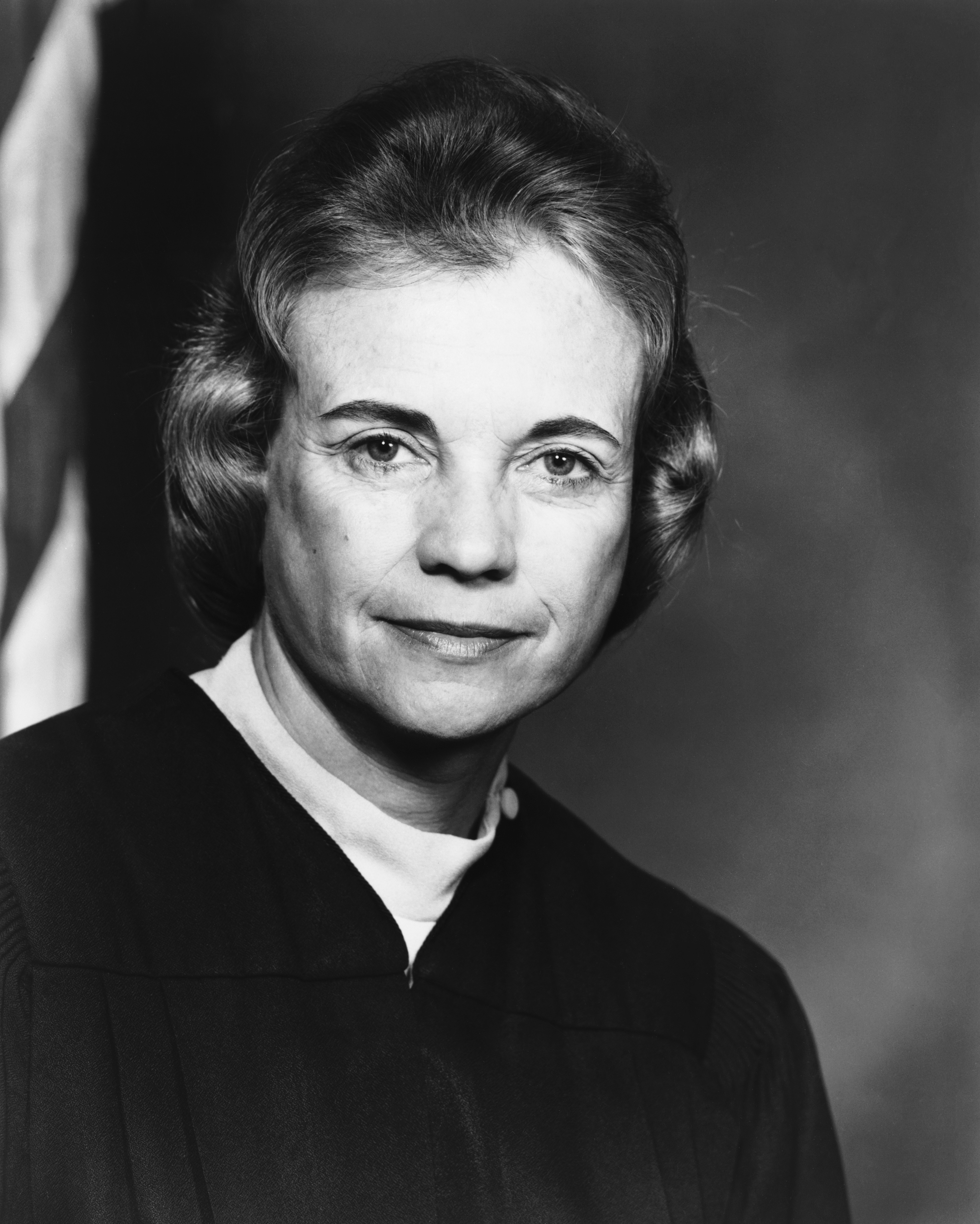 American jurist Sandra Day O'Connor (b. 1930), Justice of the Supreme Court of the United States